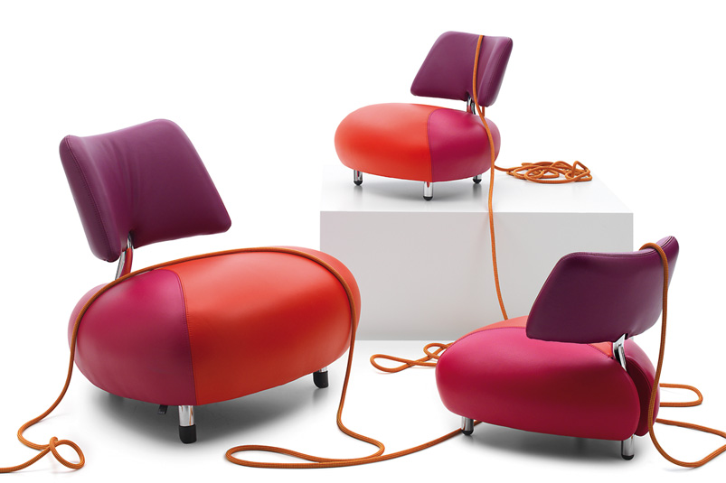 Pallone Limited